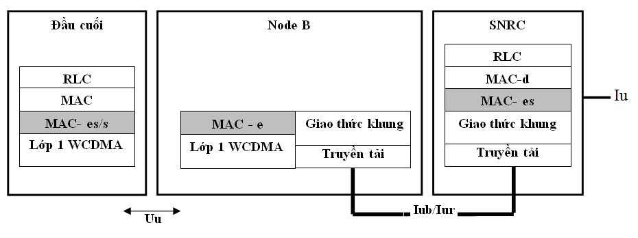 Kiến trúc giao thức người dùng HSUPA